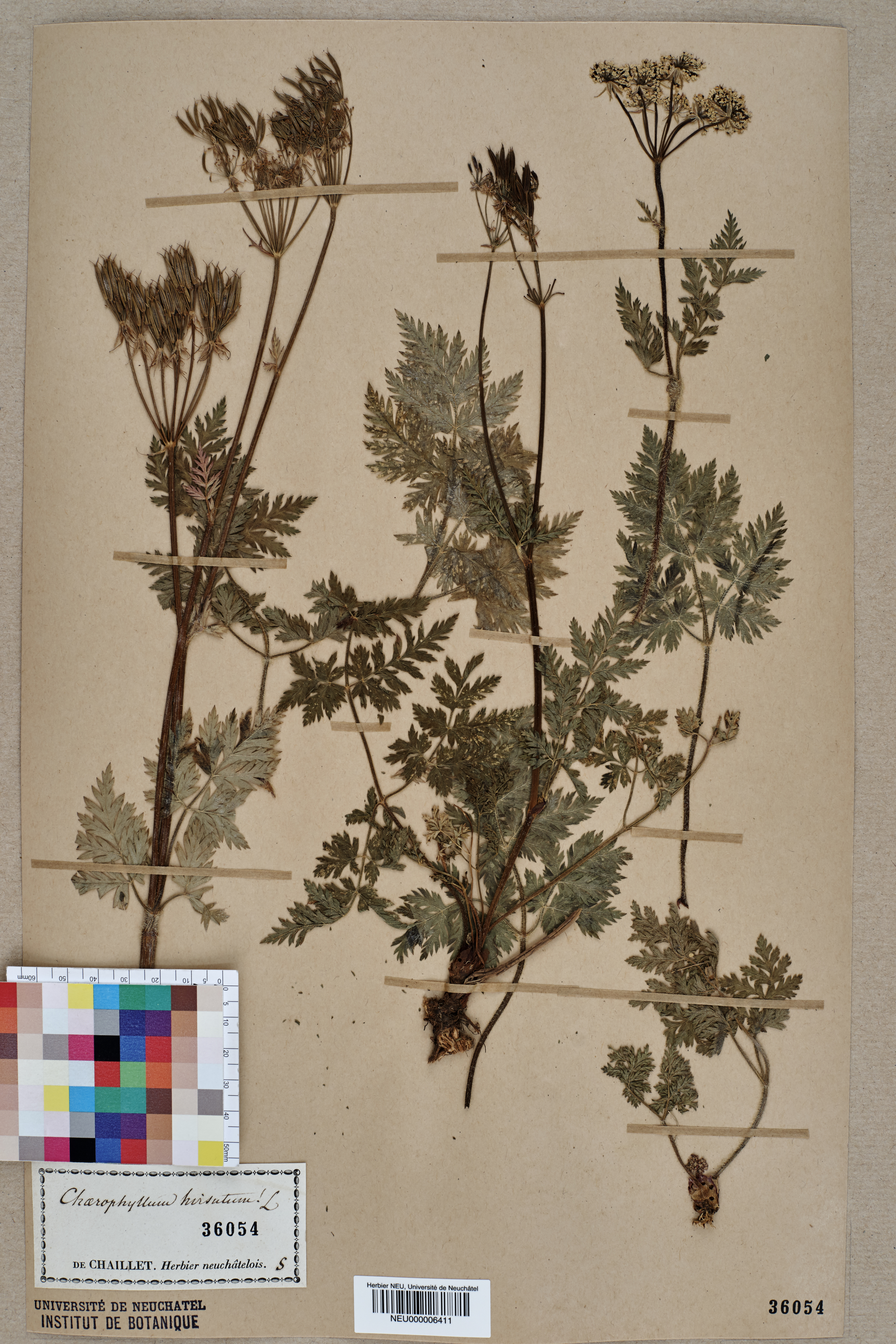 Dried pressed specimen of Chaerophyllum villarsii